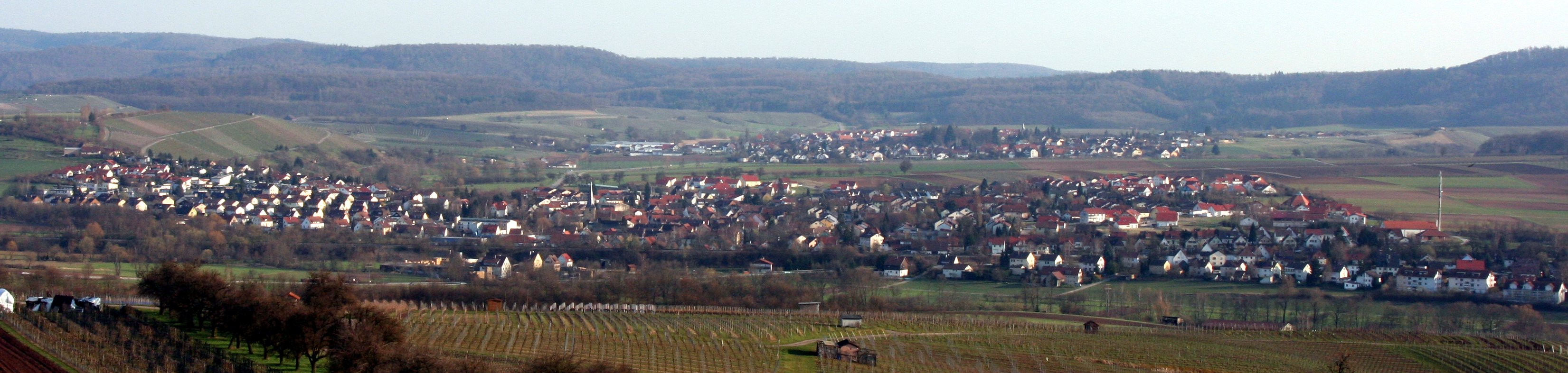 Ellhofen photographed from the North